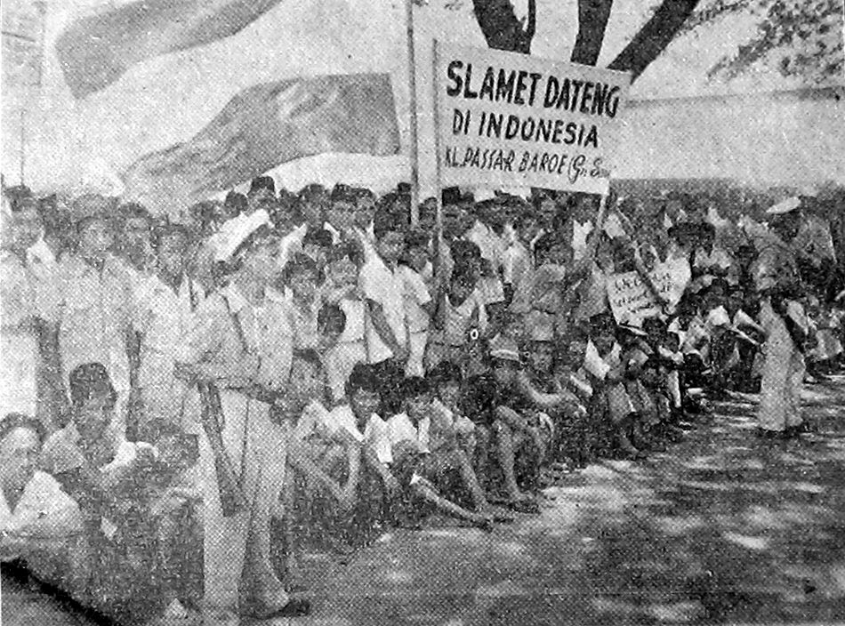 Crowds awaiting the arrival of Hubertus van Mook in Kemayoran, Jakarta